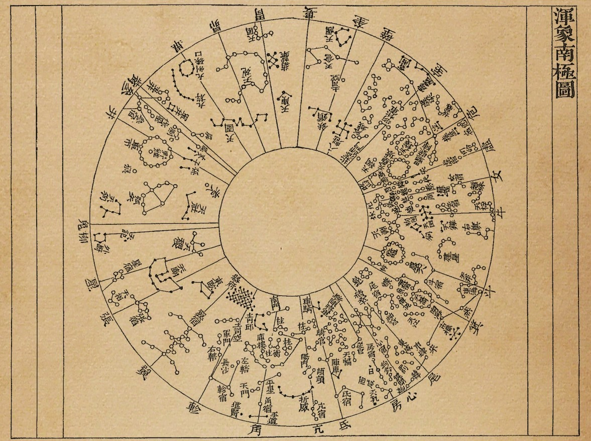 A star map of the south polar projection found for the celestial globe of Su Song (1020-1101), a Chinese scientist and mechanical engineer of the Song Dynasty (960-1279). This diagram of a star chart was first published in the year 1092 in Su's book known as the Xin Yi Xiang Fa Yao (Wade-Giles: Hsin I Hsiang Fa Yao).